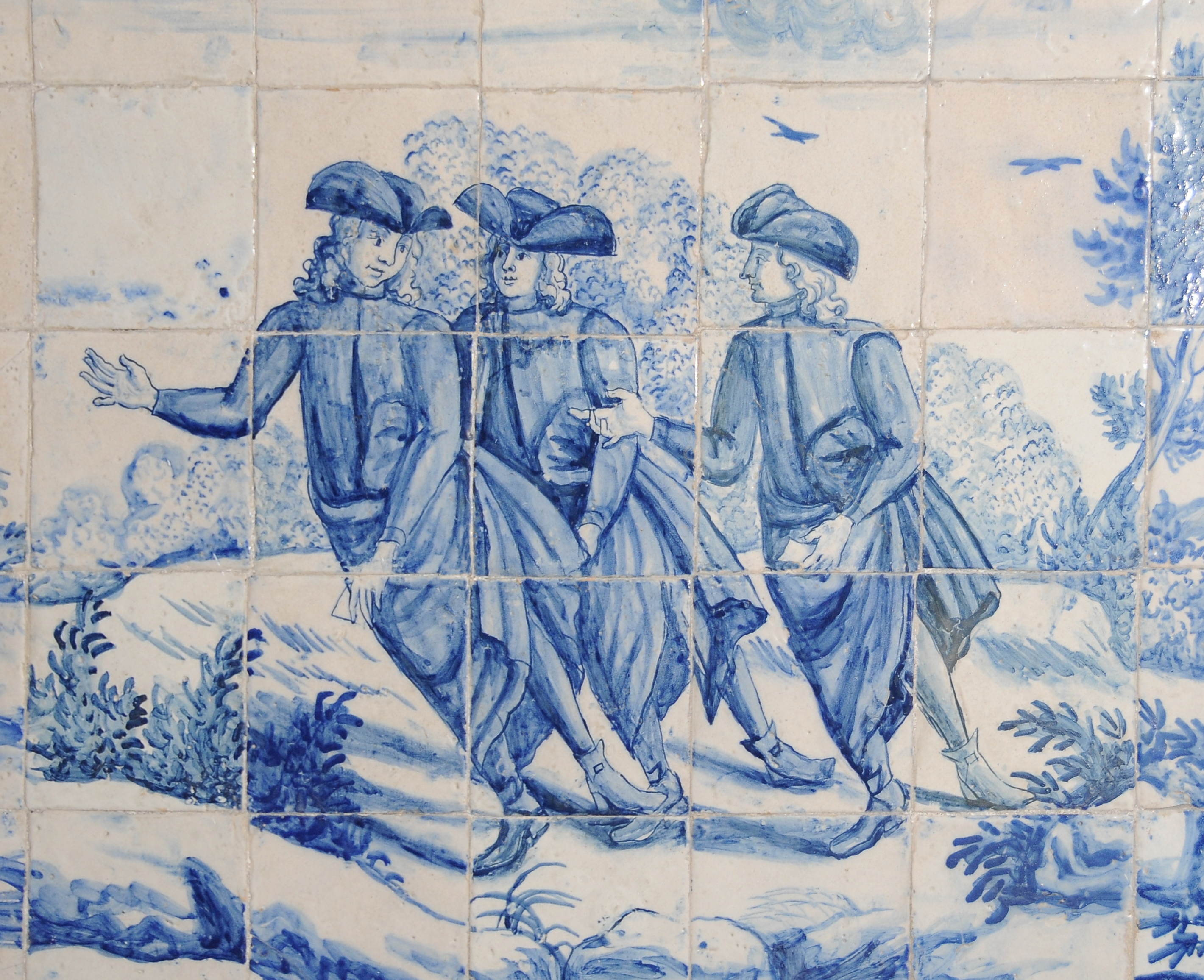 Azulejos in Archiepiscopal Court, Largo do Paço, Braga, Portugal.